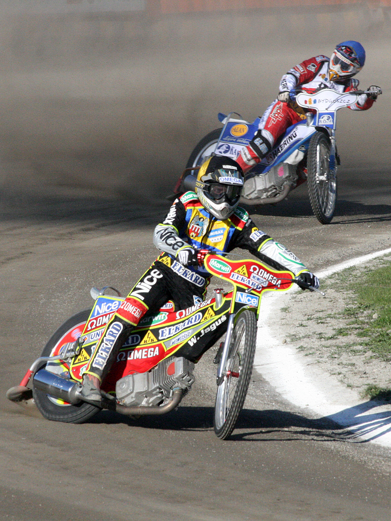 Polish speedway rider Wiesław Jaguś during match between Polonia Bydgoszcz and Unibax Toruń (April 19, 2009)